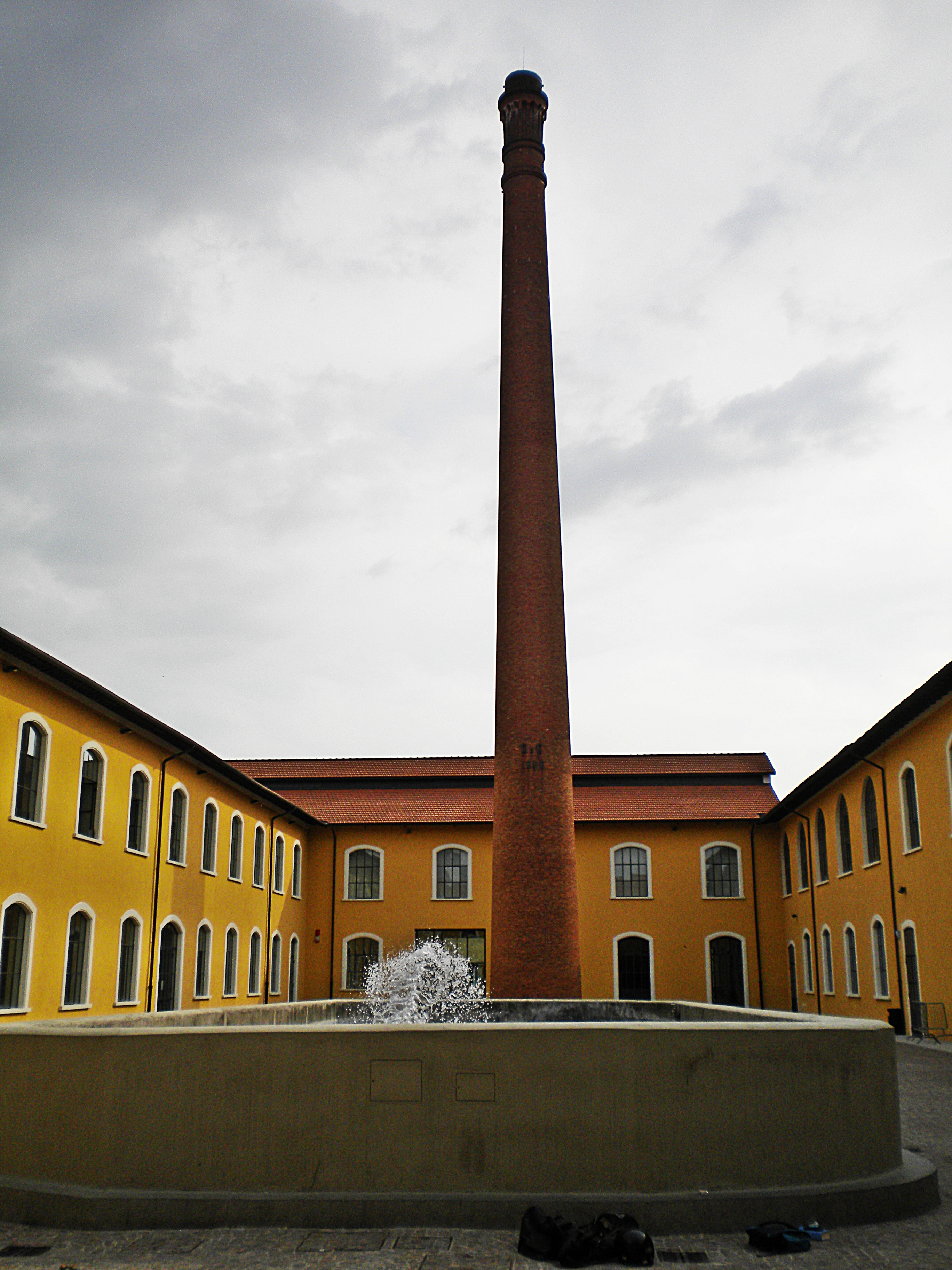 Textile museum